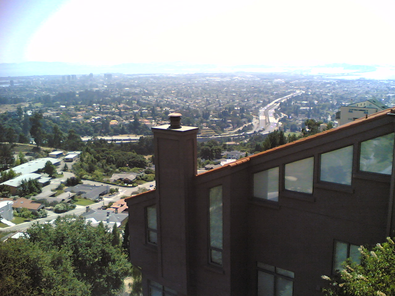 Piedmont, California